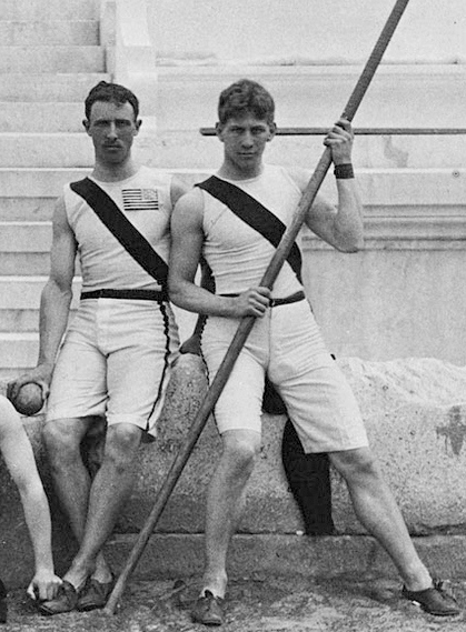 Robert Garrett and Albert Tyler at the Olympic Games in Athens in 1896